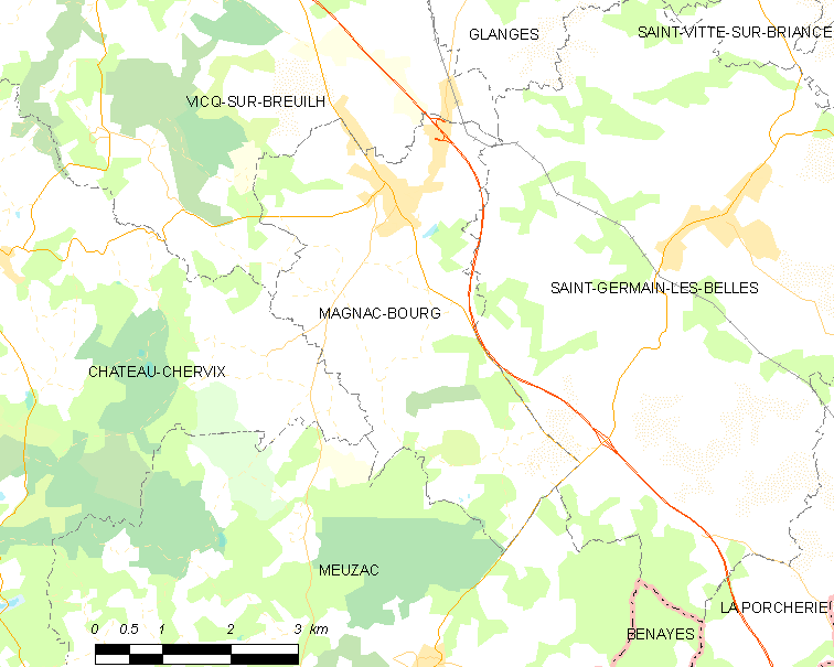 Map of French municipality Magnac-Bourg